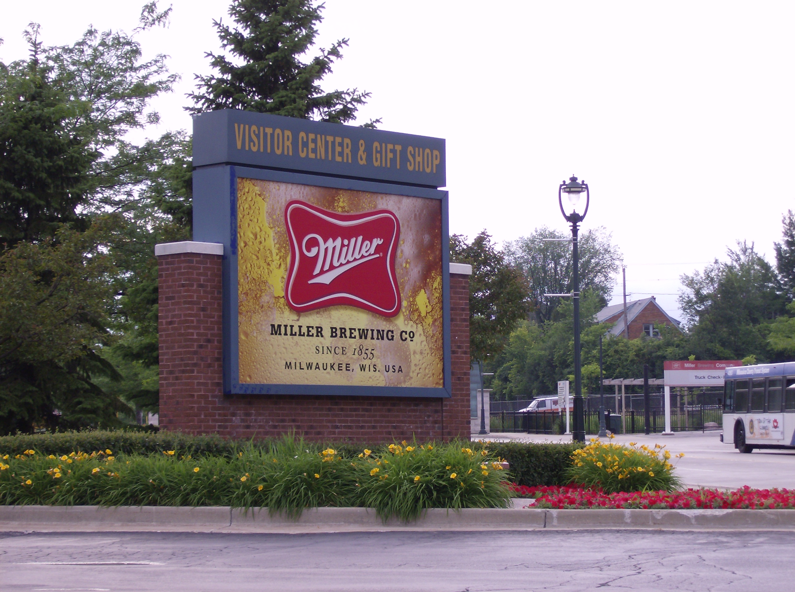 Entrance to Miller Brewery in Milwaukee.